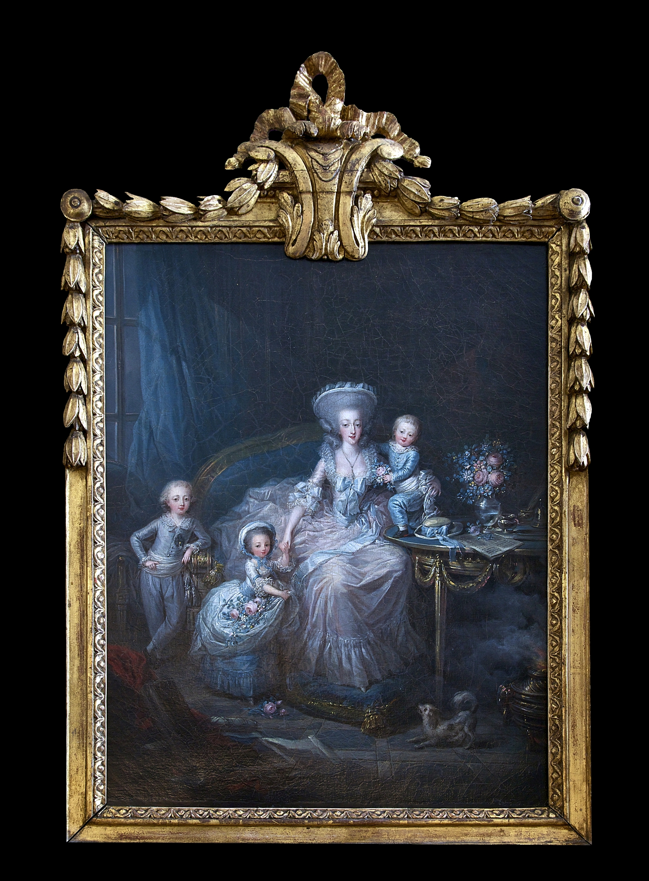 Maria Theresa of Savoy, comtesse d'Artois, wife of the future Charles X of France; the dukes of Angoulême and Berry, with their sister Sophie of Artois